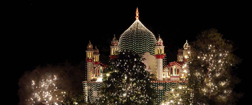 A beautiful night view of Darbar Baituraza illuminated on the occasion of annual urs 2007